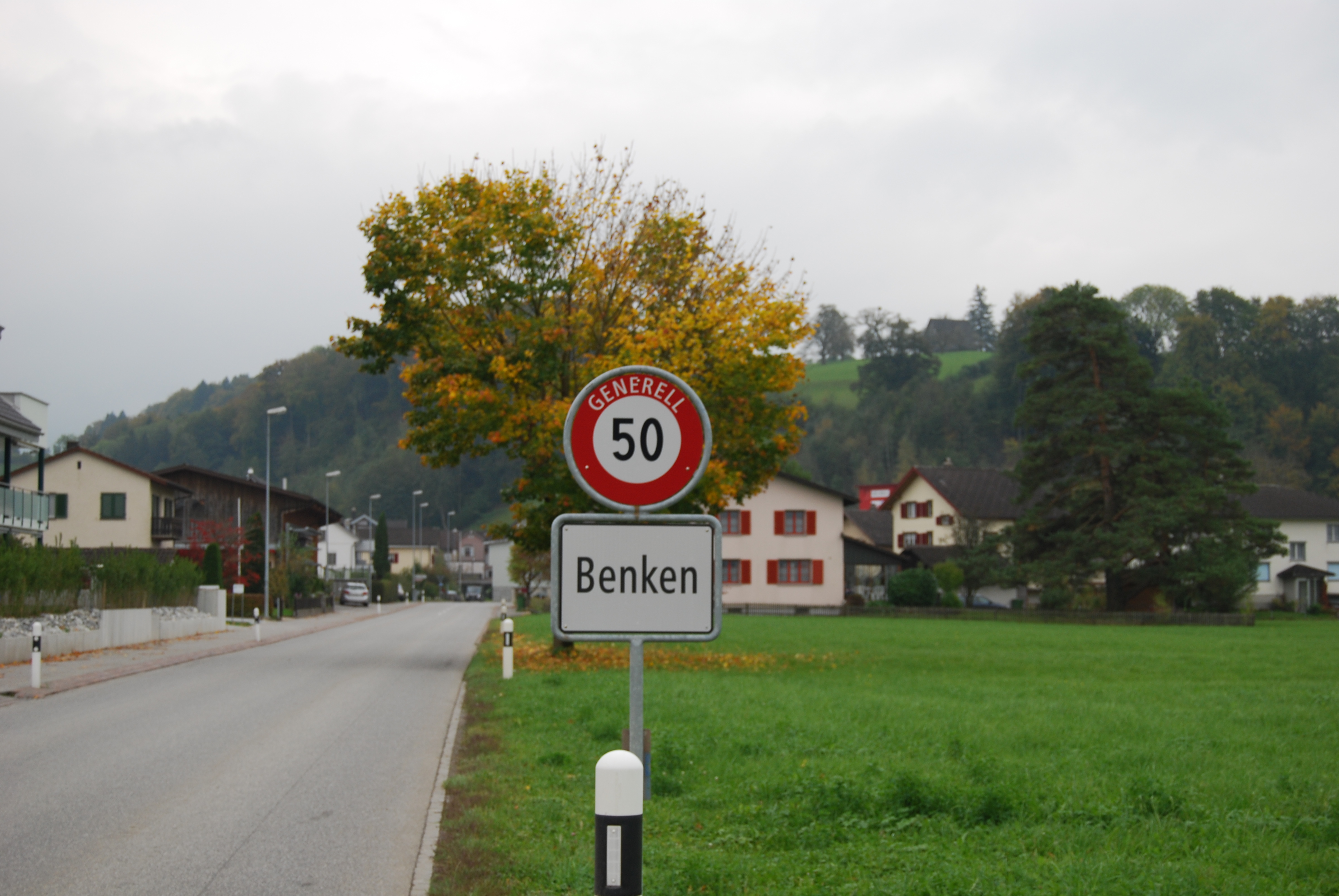 Benken, canton of St. Gallen, SwitzerlandEsperanto: Benken, Kantono Sankt-Galo, Svislando